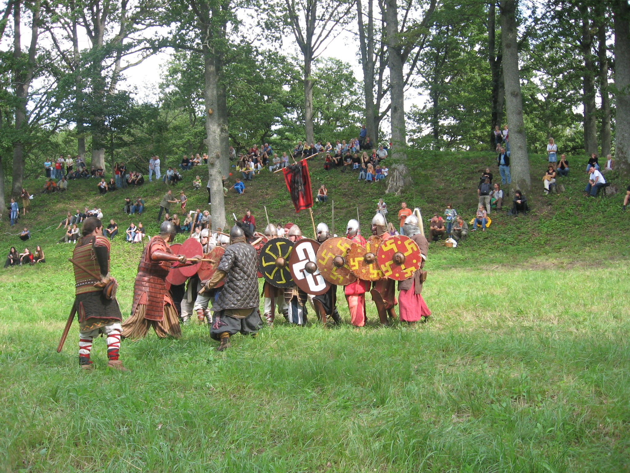 Medieval festival in Lithuania.